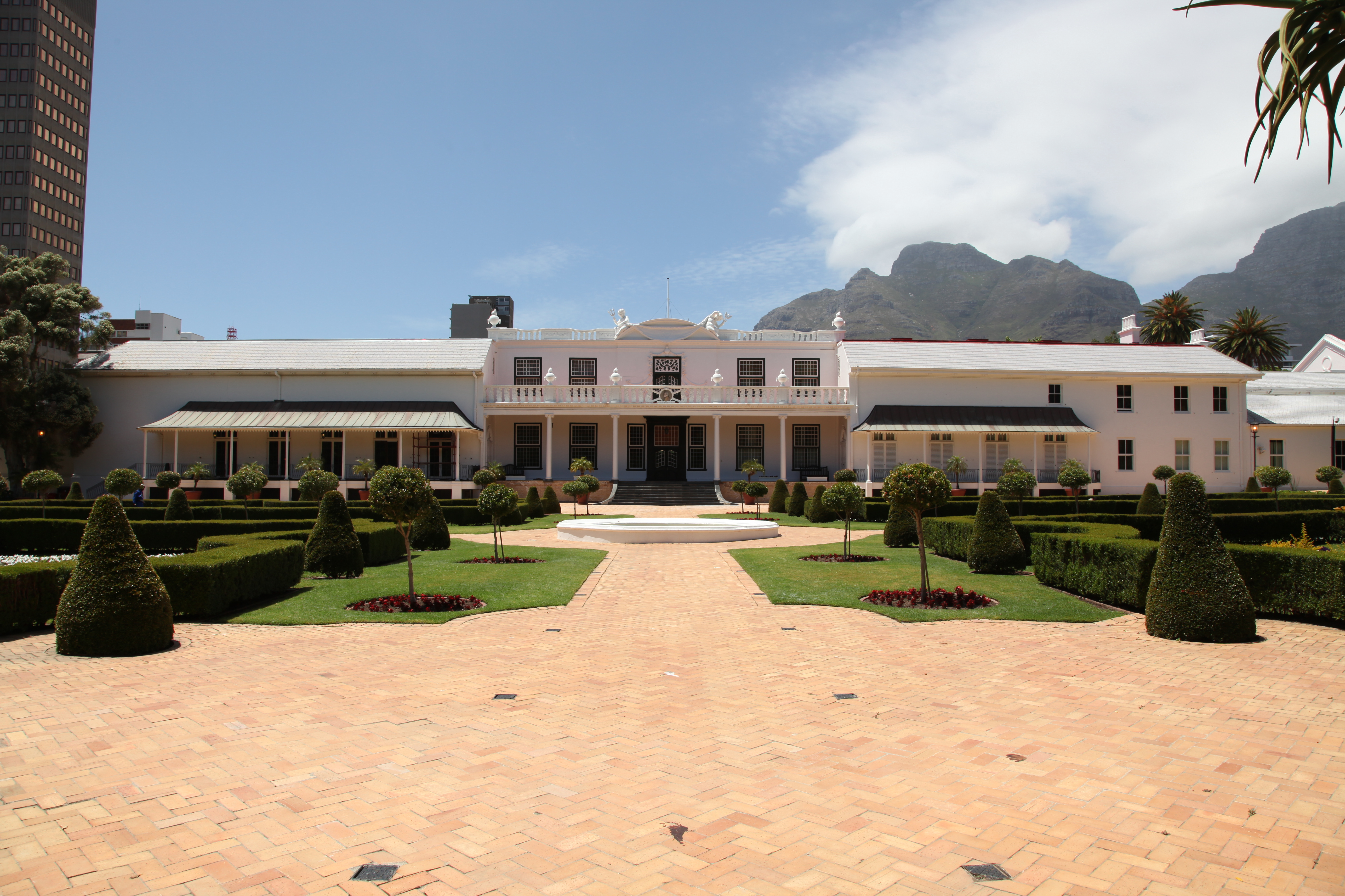 De Tuynhuys, the Cape Town office of the Presidency of the Republic of South Africa, originated in 1682.